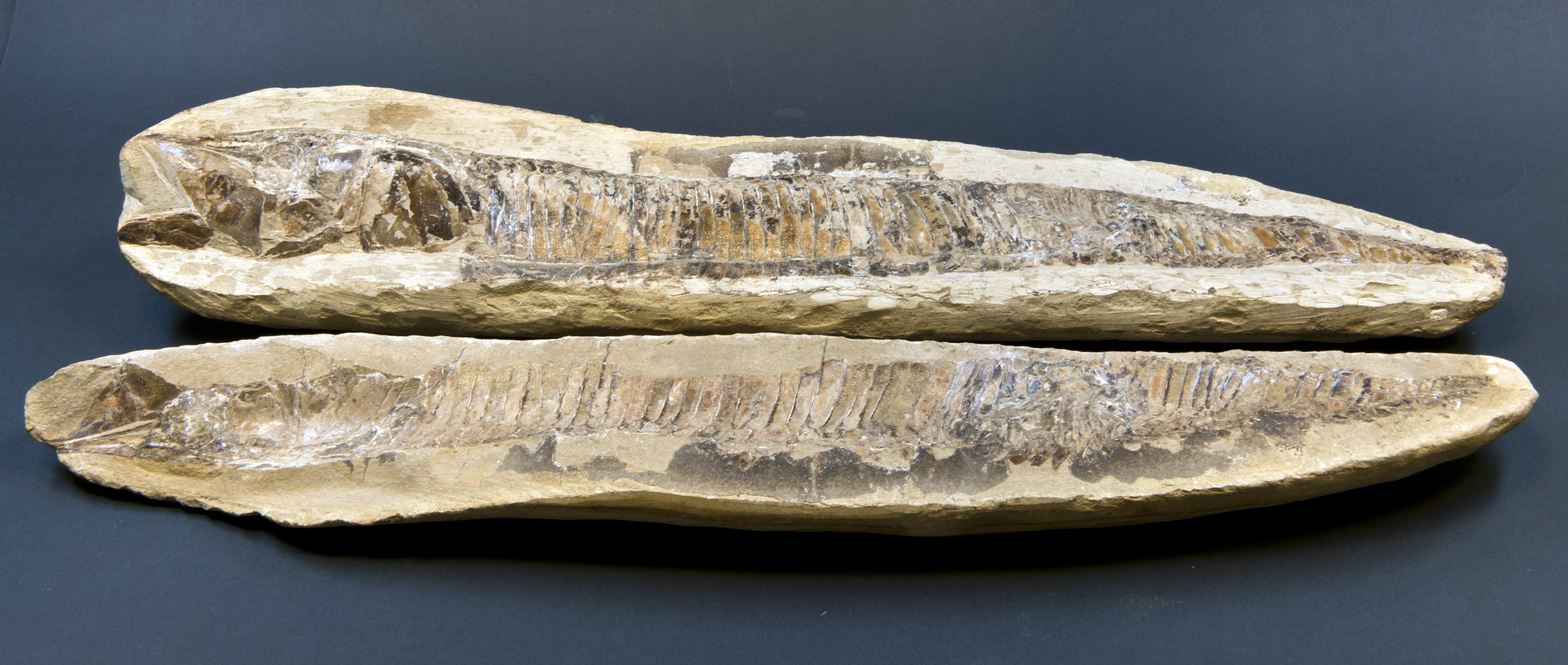 Fossil fish in concretion Vinctifer aspidorhyncid Santana Formation - Ceara, Brazil Lower Cretaceous, 110 Million years old